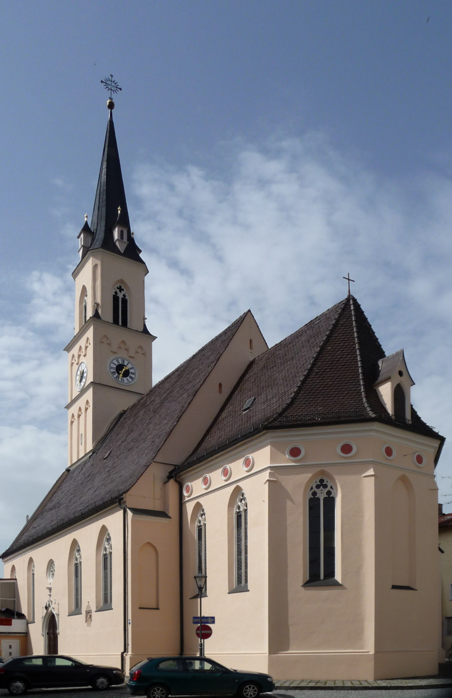 Neumarkt-Sankt Veit, exterior view of St John the Baptist's Subsidiary Church facing west.